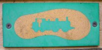 Photo taken by Author